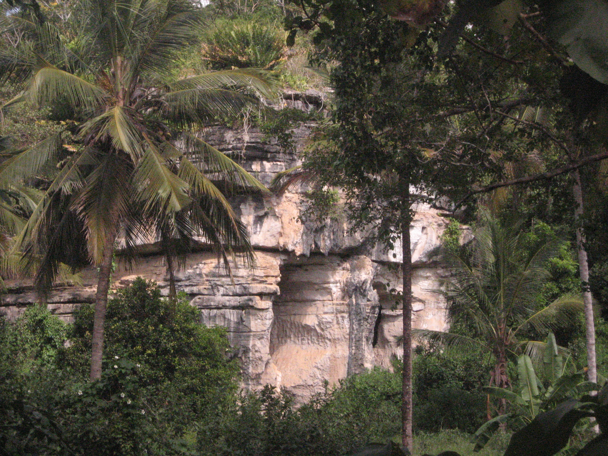 Amboni caves, near Tanga city, Tanzania. The caves were formed 150 million years ago and are the largest complex of limestone caves in East Africa.